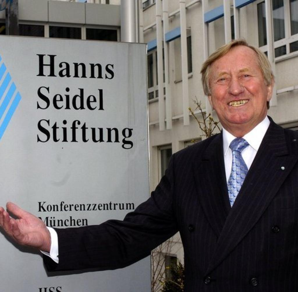 former Bavarian Minister